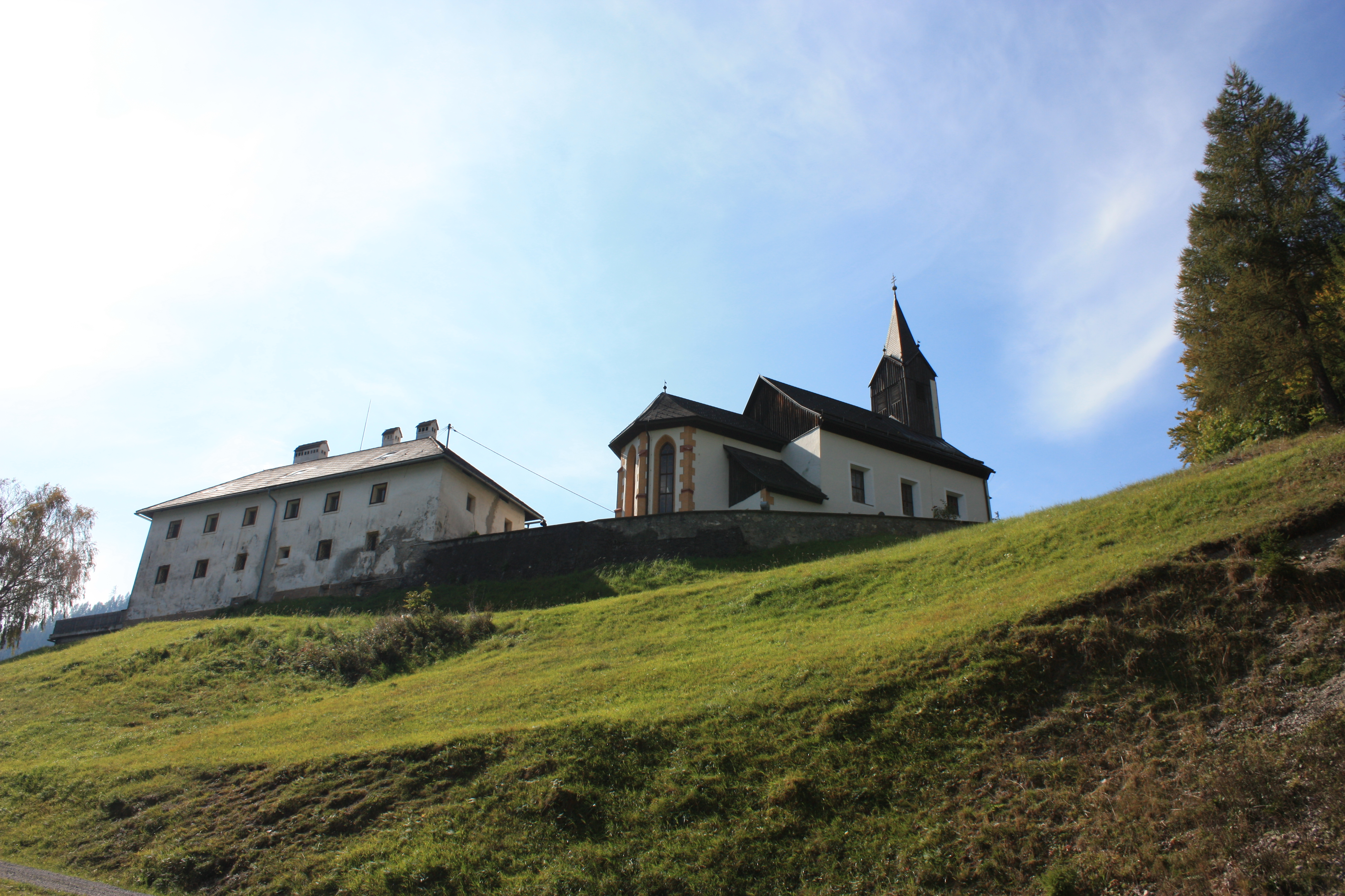 Parish church Saint Niklaus, also known as "Bichlkapelle", with former cloister Locality: Stockenboi Community:Stockenboi